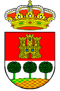 sdvsd